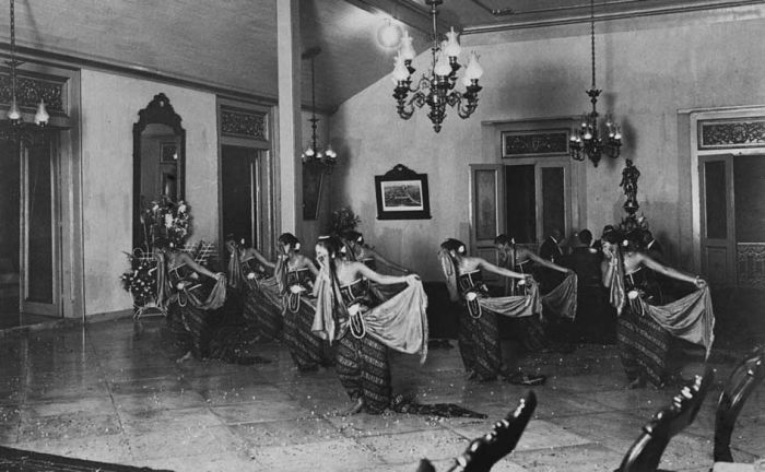 Bedoyo dance performance at the wedding of Hoesein Djajadiningrat and Partini in the palace of Prang Wedono (Mangkoe Negoro VII), the father of the bride, at Solo